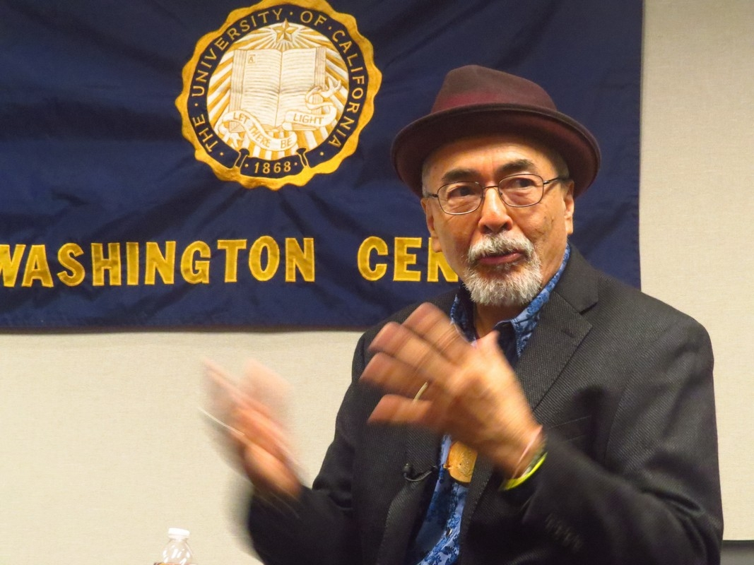 Juan Felipe Herrera, Poet Laureate Consultant in Poetry to the Library of Congress, speaks at the University of California's Washington Center, Washington, DC, April 24, 2017